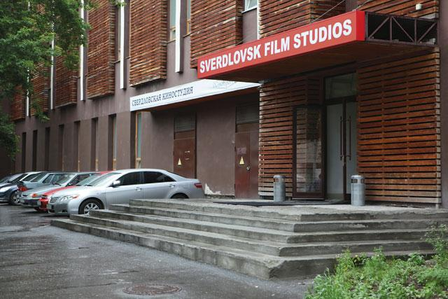 One of entrances